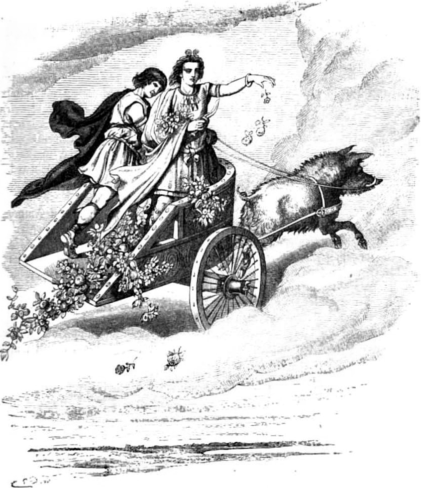 Freyer mit Skirnir. Freyr and Skírnir in a boar-drawn wagon, spreading fertility.